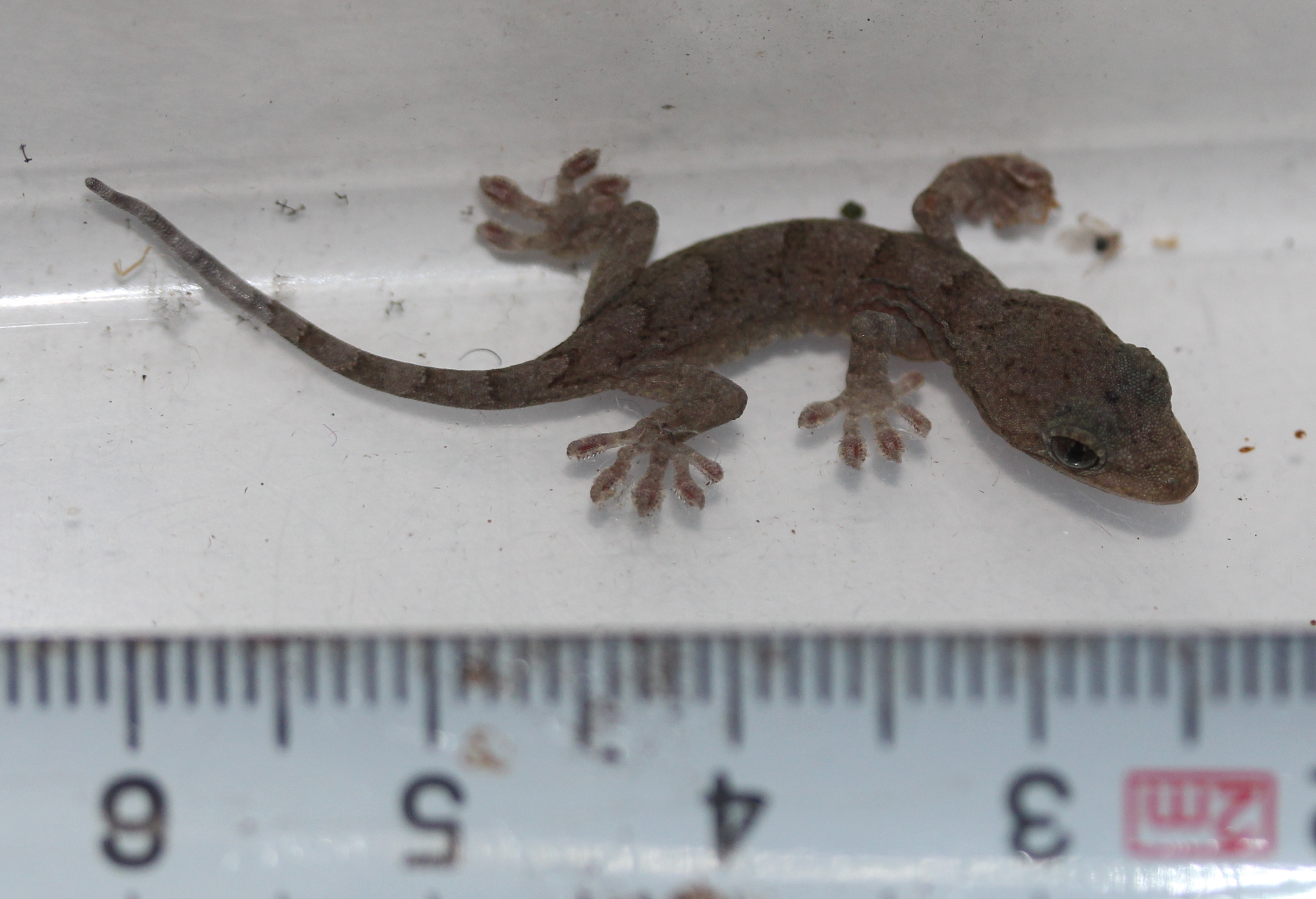 Schlegel's Japanese gecko (Gekko japonicus), in Aichi prefecture, Japan. Scale is millimeter.